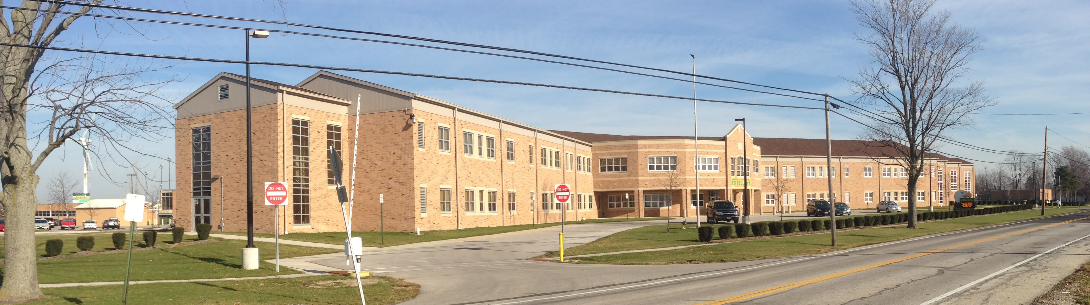 This is a picture of Clay High School.